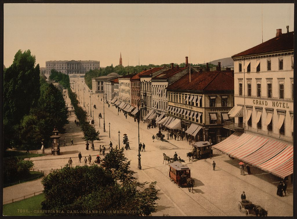 Carl Johans Gade with Slotted (i.e., Slottet), Christinia, Norway